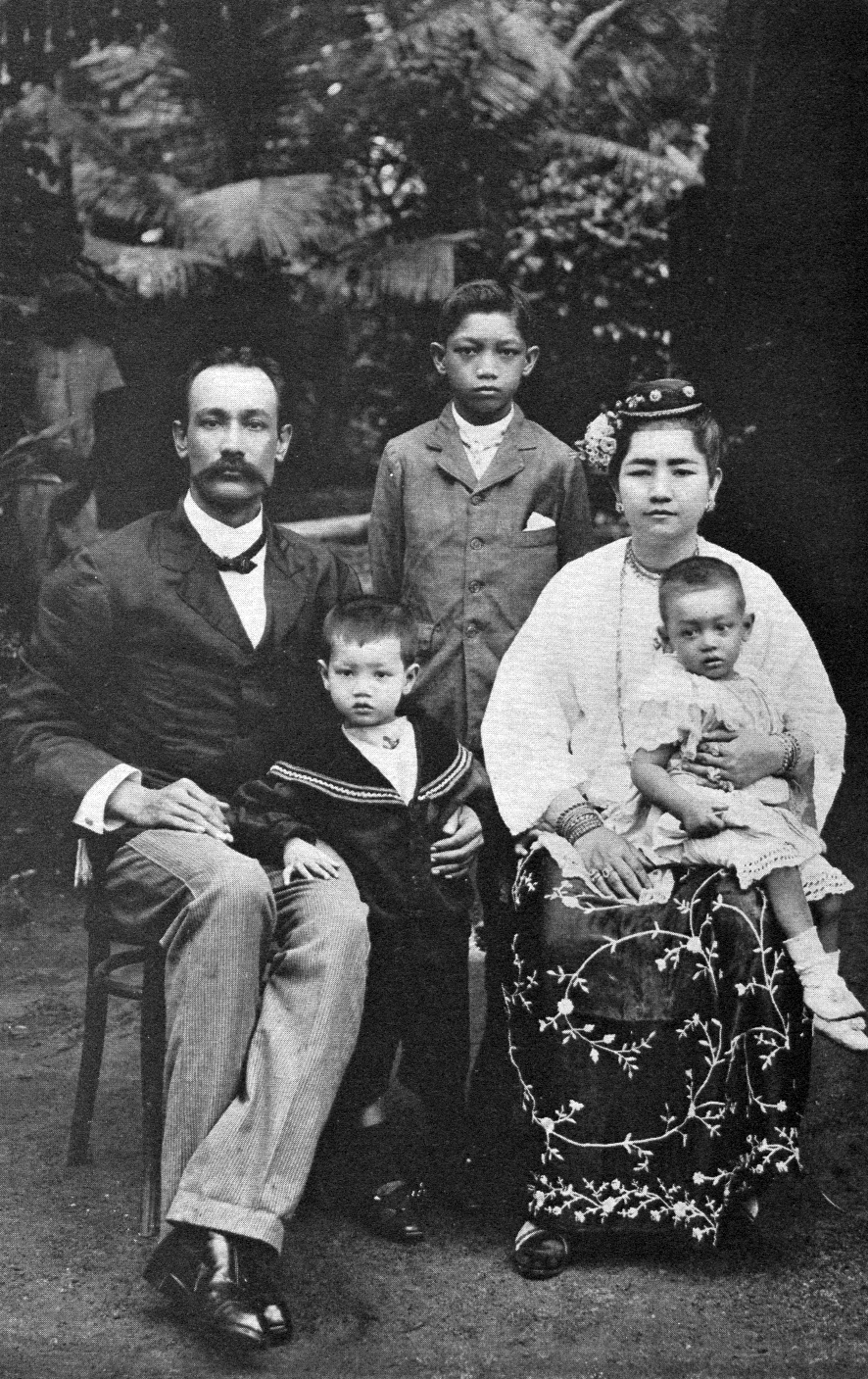 Frederick Alexander Charles Trutwein family portrait MR. FREDERICK ALEXANDER CHARLES TRUTWEIN, B.A., is an advocate of the Chief Court and has practised in Bassein since 1892, After taking the B.A. degree at Rangoon College in 1889, Mr. Trutwein acted as a schoolmaster in the College for two years. During this tilne he studied law, and passed as an advocate of the Judicial Commissioner's and Recorder's Court, Rangoon, now the Chief Court. The volunteer movement has always claimed was Municipal Secretary for over 15 years, ill r87. He was educated at St. Paul's High School, Rangoon, and achieved the exceptional feat of passing the entrance examination to the Calcutta University at the age of thirteen. His studies mere afterwards continued at Vizagapata,n, and on his return to Henzada he joined the Educational Department as a teacher and then as a headmaster. During this time he studied law, and passed the examination in 1897.